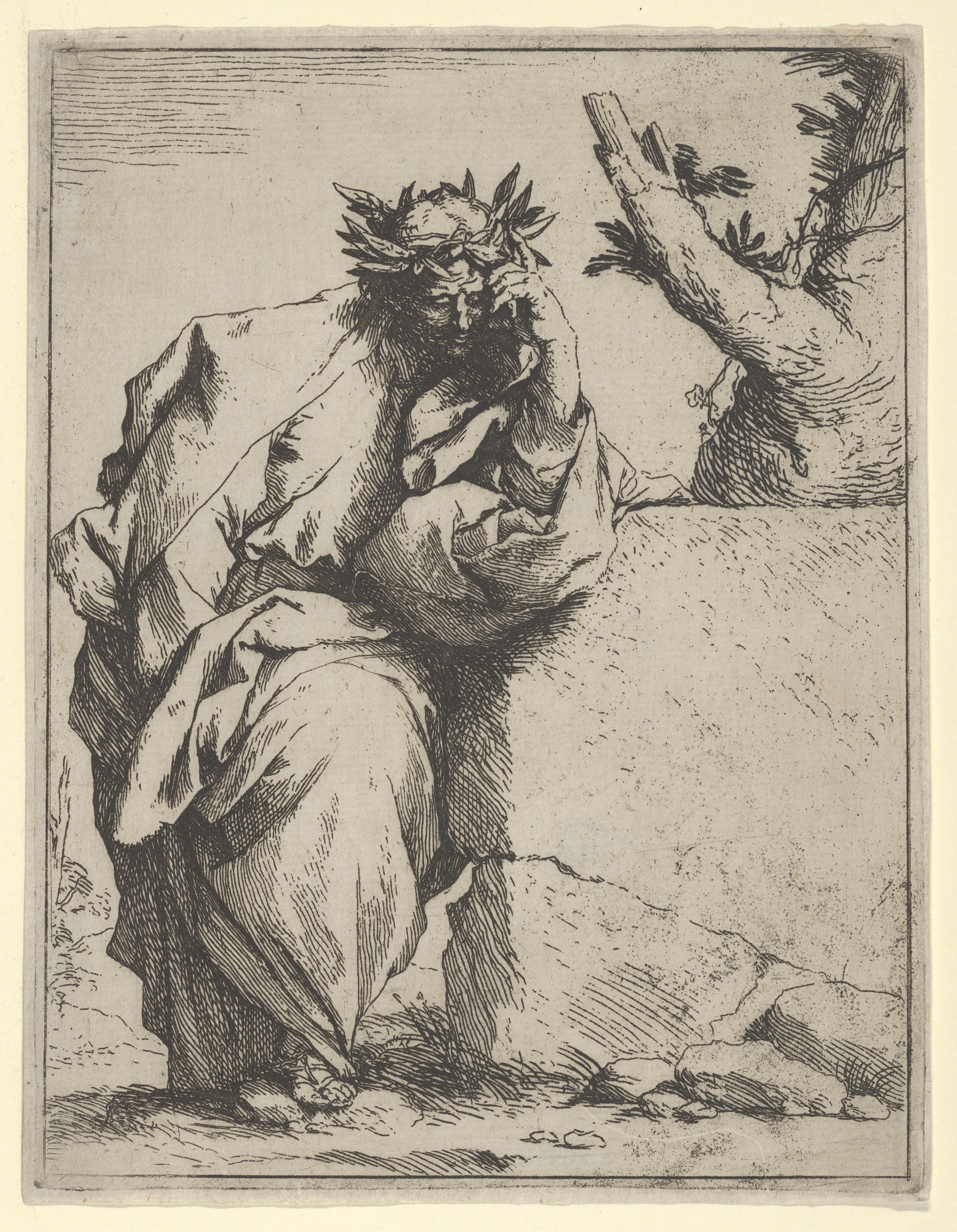 Print; Prints